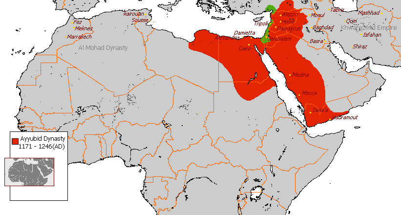 Ayyubid dynasty (1171-1246) Green: crusaders. Red: Ayyubid Dynasty.